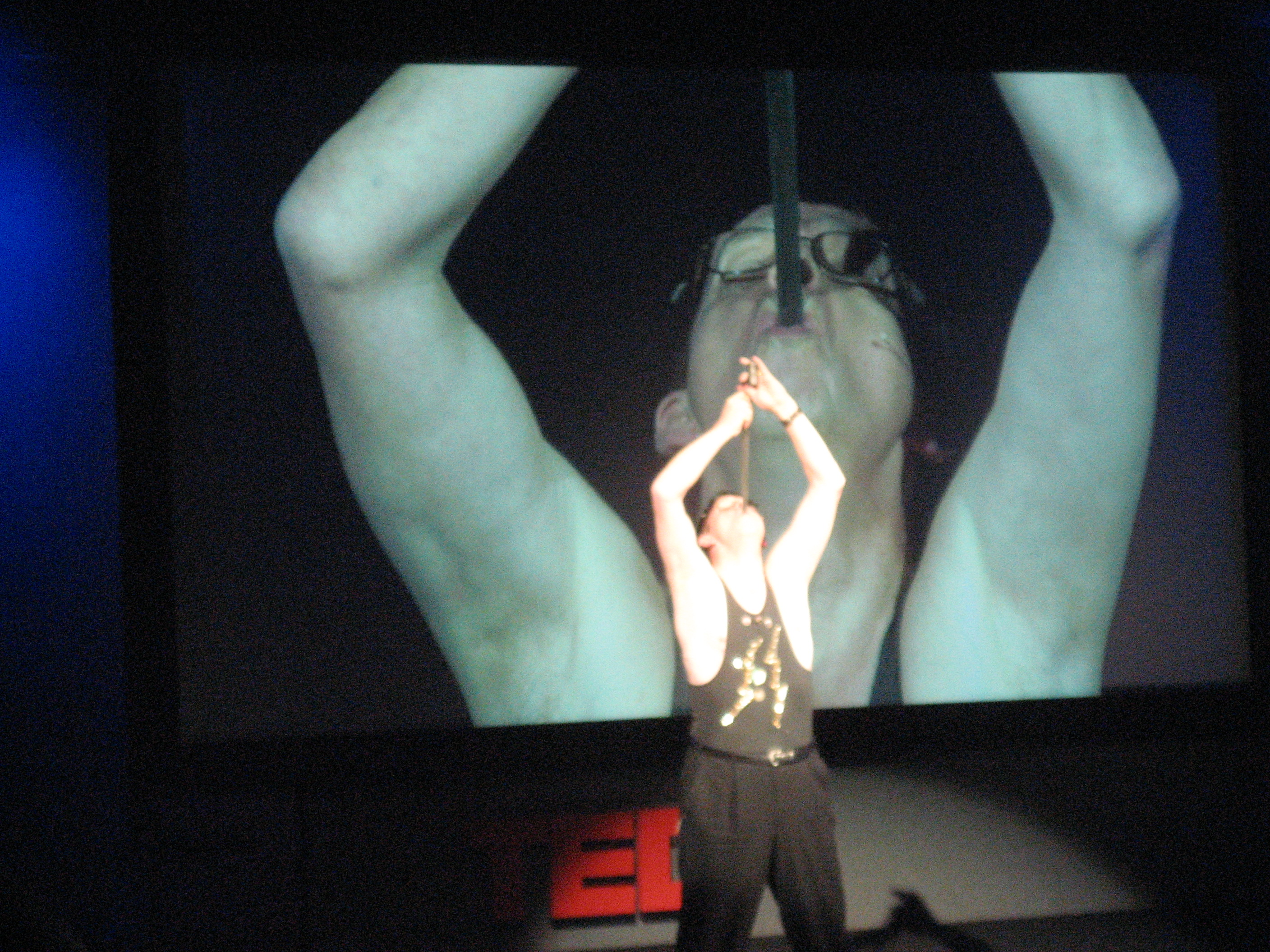 Hans Rosling of Gapminder swallowing a bayonet during his TED presentation.